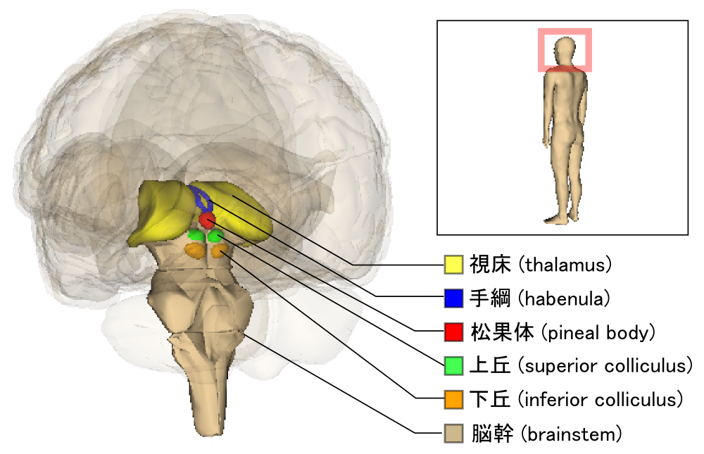 brainstem and thalamus from back. from Anatomography[1] maintained by Life Science Databases(LSDB).